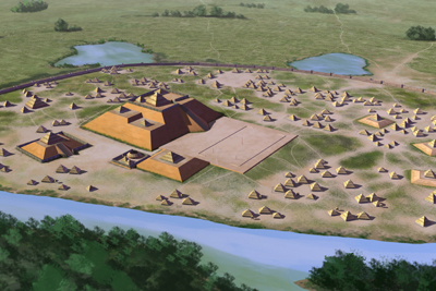 Artists conception of the Etowah site (9 BR 1), a Mississippian culture archaeological site located on the banks of the Etowah River in Bartow County, Georgia. Built and occupied in three phases, from 1000–1550 CE. All rights held by the artist, Herb Roe © 2016.